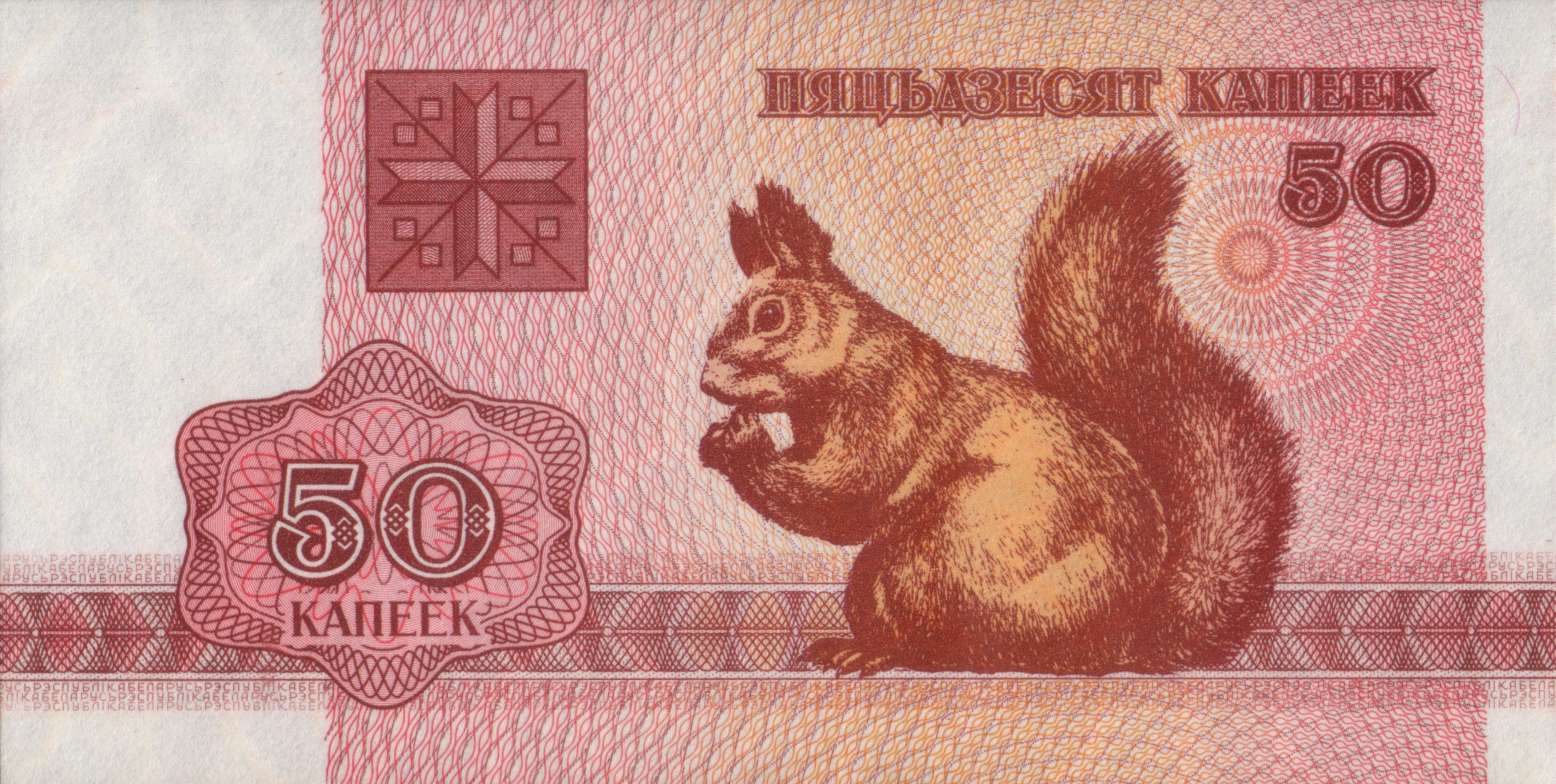 50 kopeck of Belarus (1992)